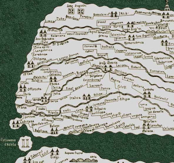 Lusitania in reconstruction of the Roman street map Tabula Peutingeriana.